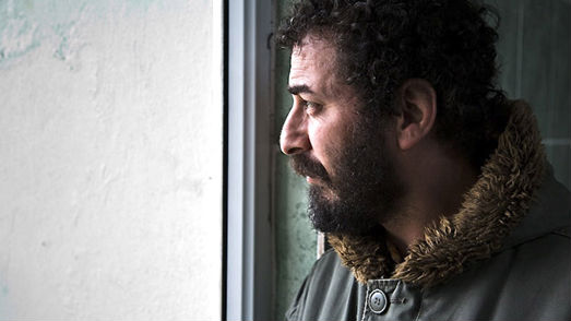 Photo of Bülent Öztürk